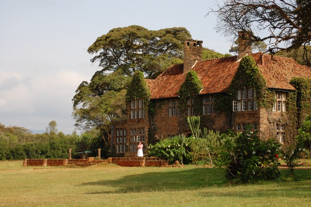 A photograph of the exterior of Giraffe Manor, Nairobi, Kenya